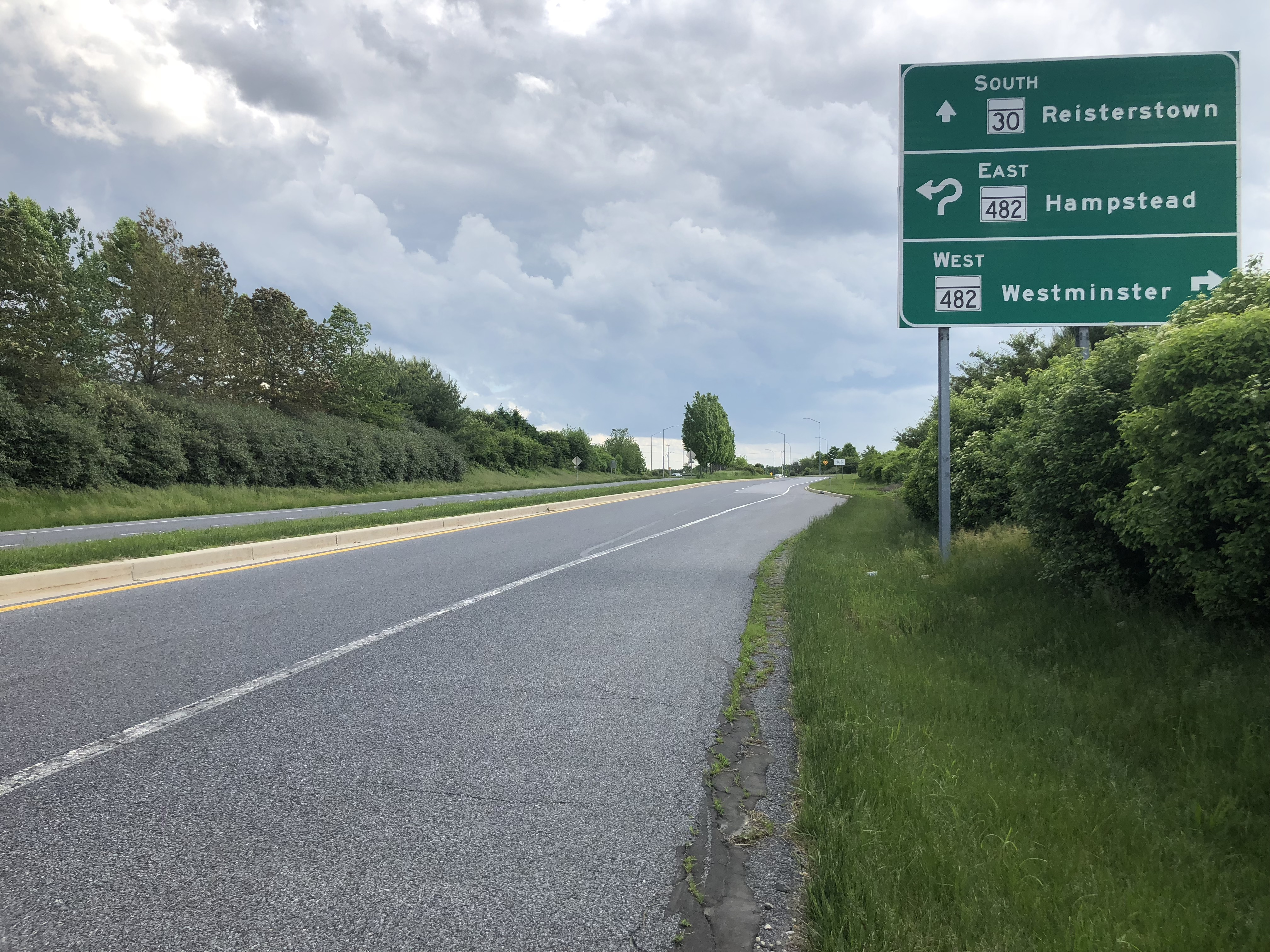 View south along Maryland State Route 30 (Hampstead Bypass) just north of Maryland State Route 482 (Hampstead-Mexico Road) in Hampstead, Carroll County, Maryland